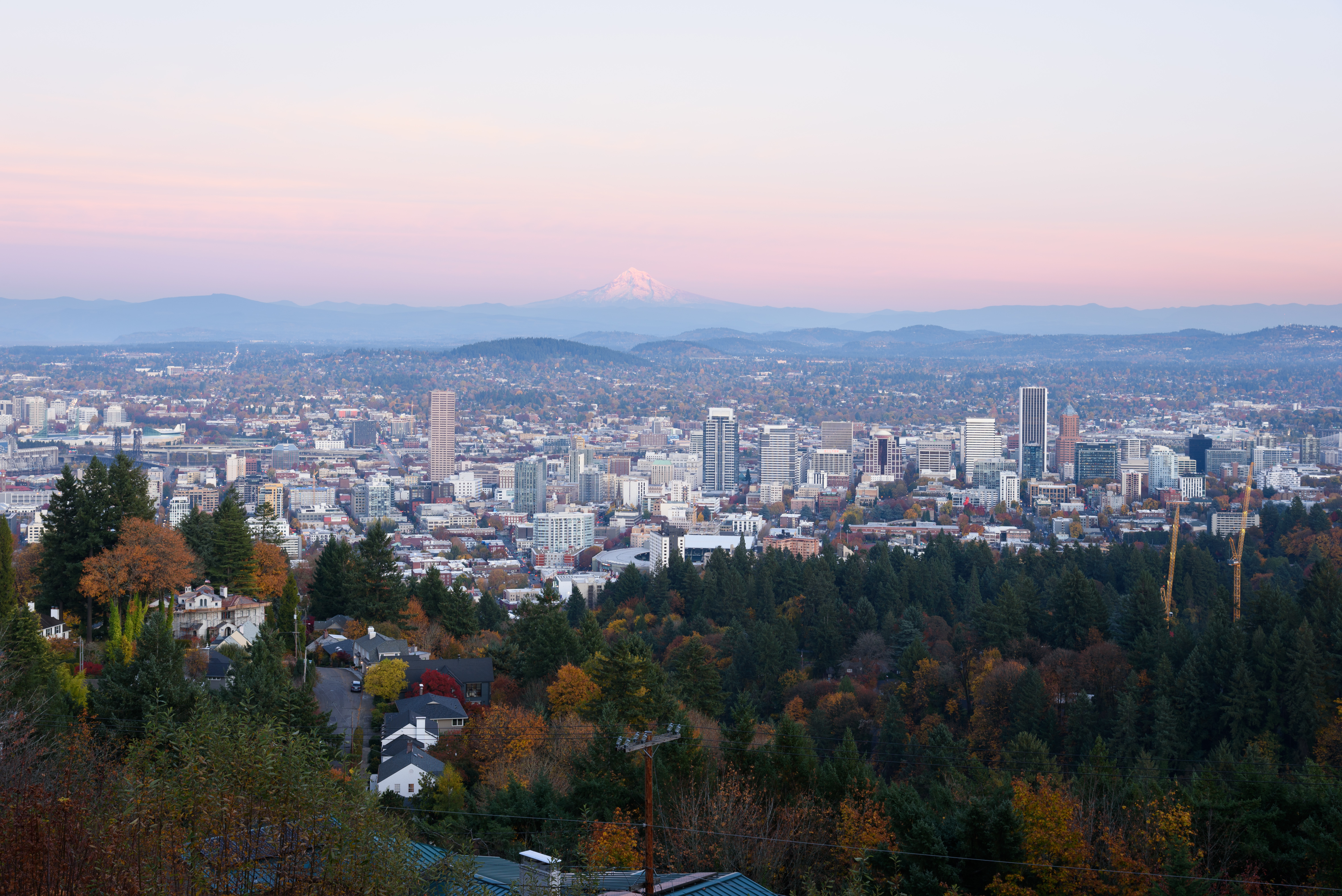 Skyline of Portland, Oregon, from Pittock Mansion viewpoint at dusk.